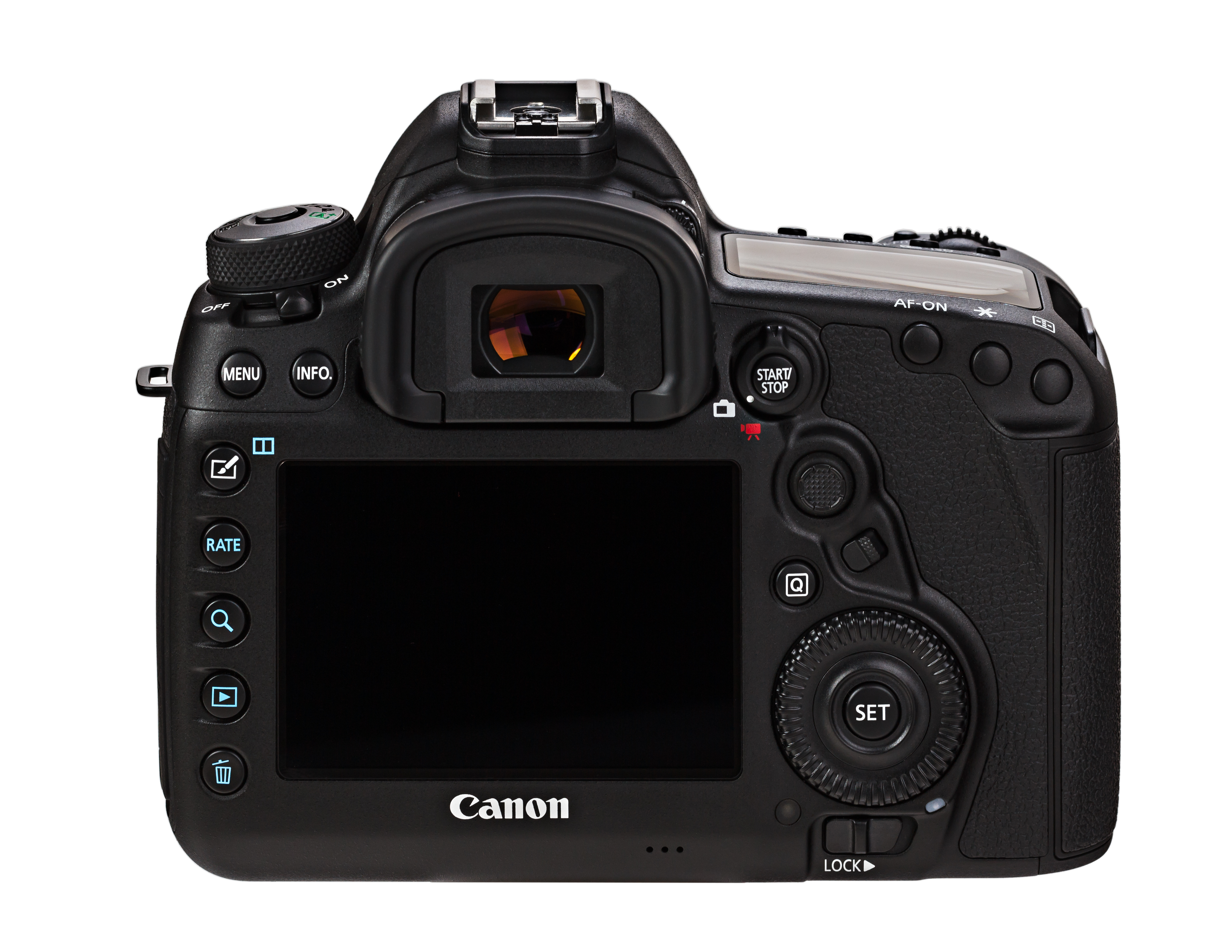 Canon EOS 5D Mark IV, view of backside panel